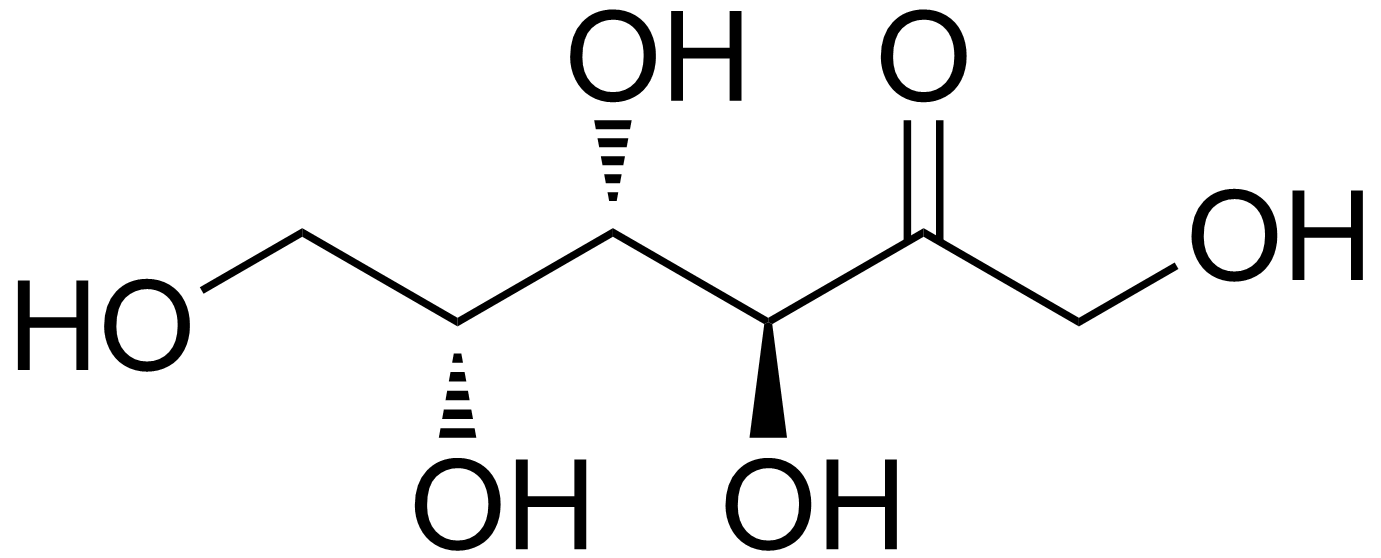 chemical structure of D-tagatose